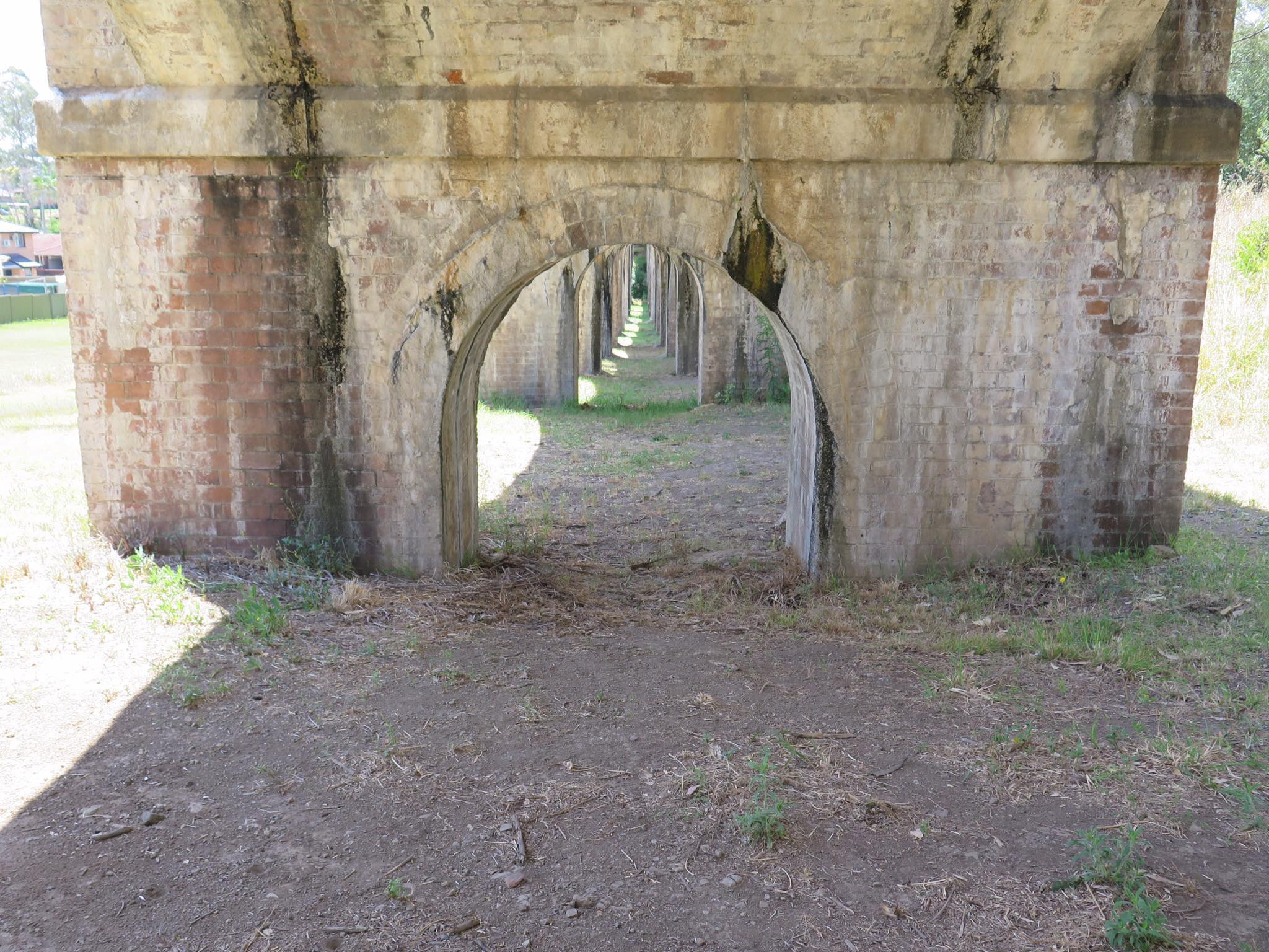 Bottom part of aqueduct in Greystanes, Sydney.